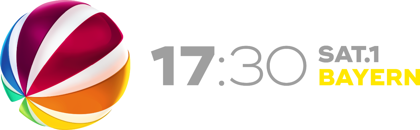 Logo of the Bavarian regional magazine of SAT.1